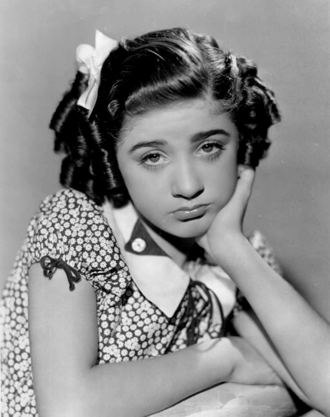 Photo of Edith Fellows.